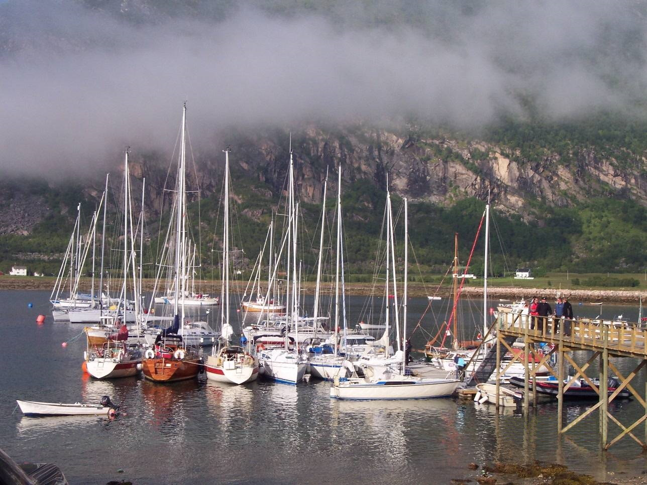 Photo from the vestfjordseilas in Steigen, Norway. Could also be used for boats, maybe overpopulation (hehe) or... fog?